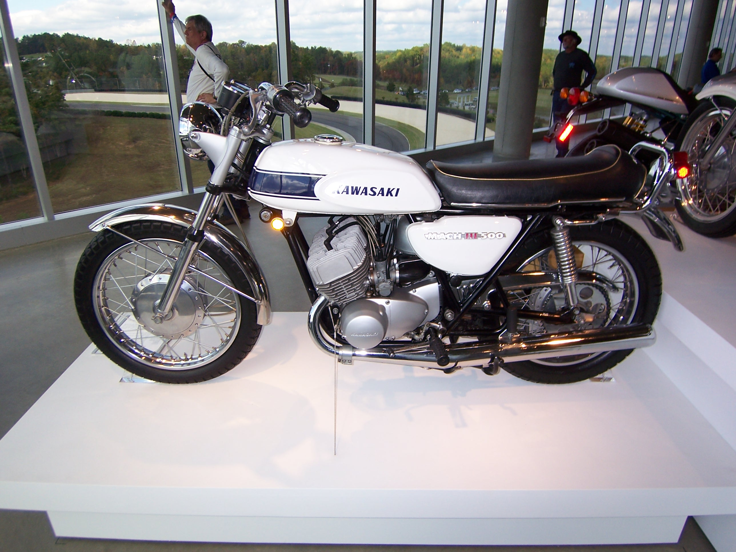 Barber Motorcycle Museum - Oct 22 2006 (642) 1969 Kawasaki 500 H1 MachIII More Description is here